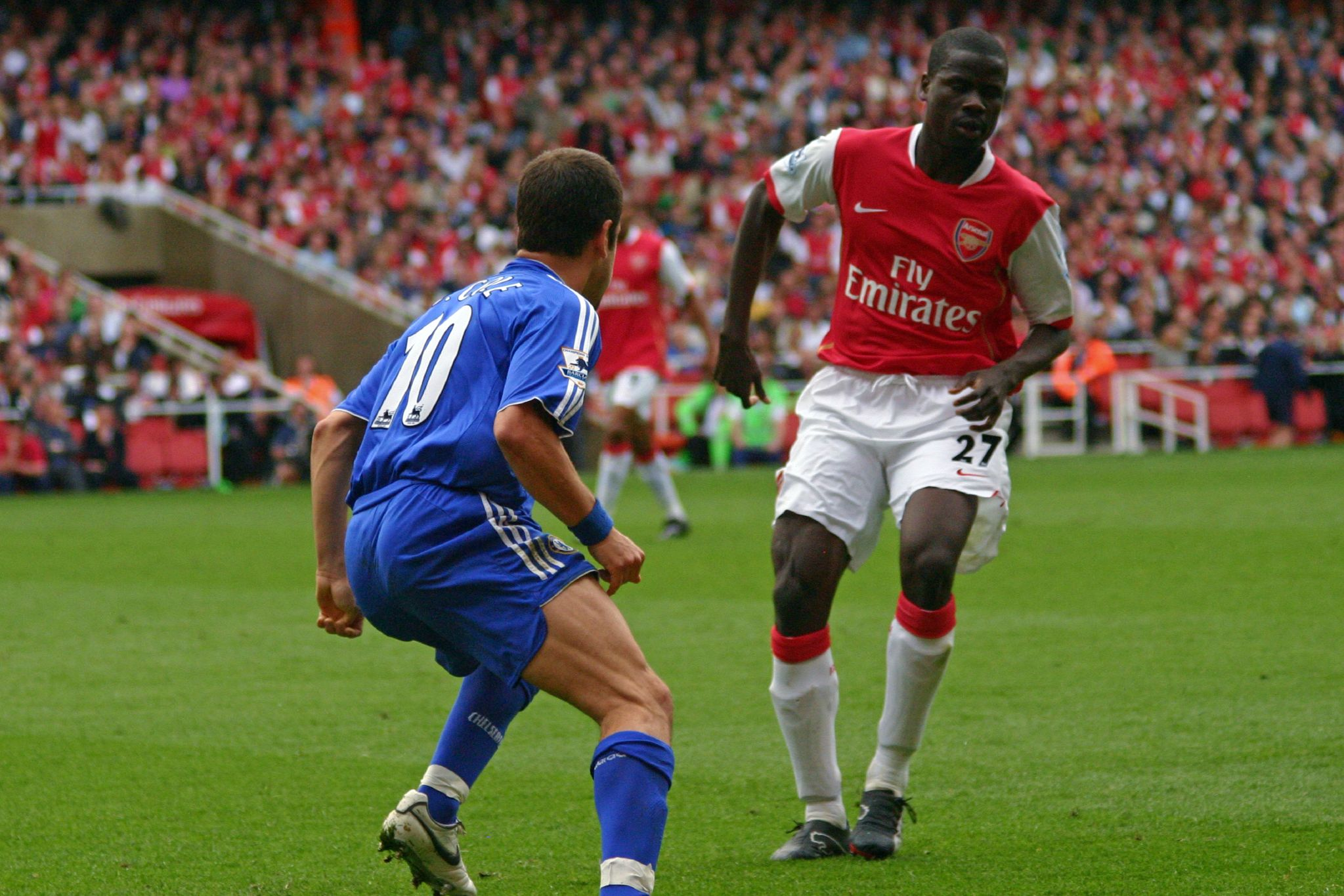 Eboue of Arsenal vs Cole of Chelsea